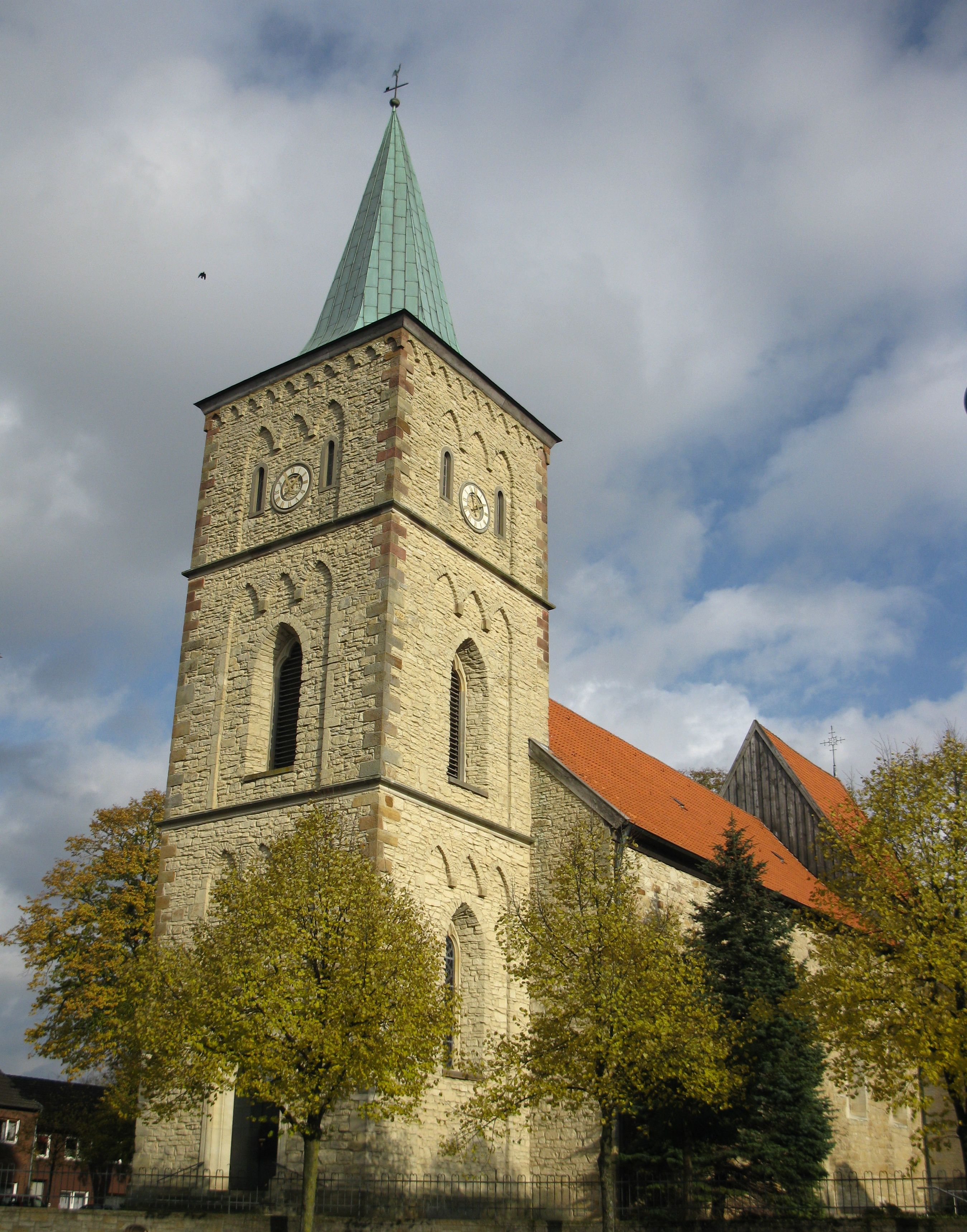 Saint Ludger Church, Heek, Germany